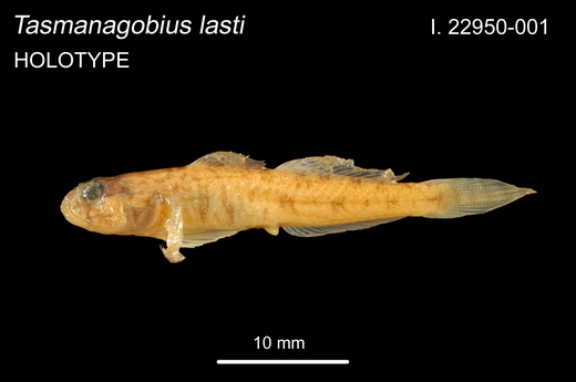 Holotype of Scary's Tasmangoby, Tasmanogobius lasti.